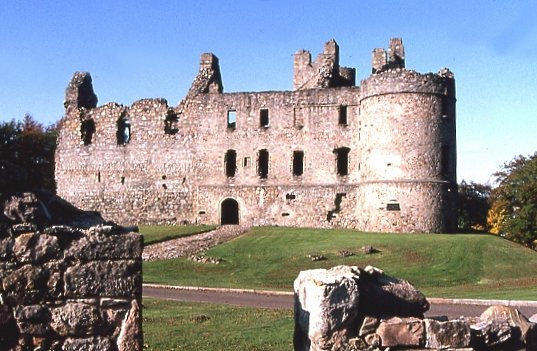 Balvenie Castle Banffshire.